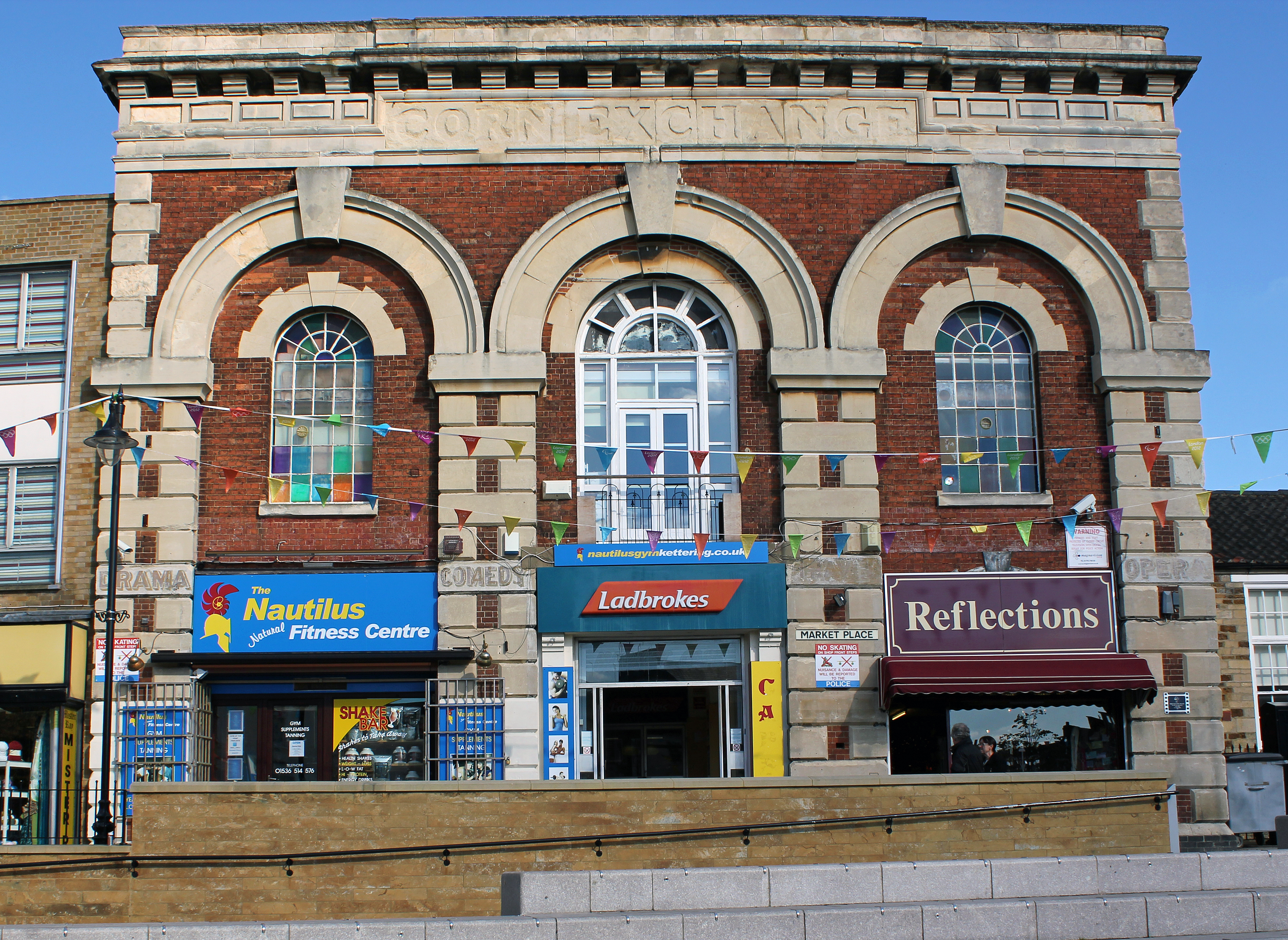 Front elevation